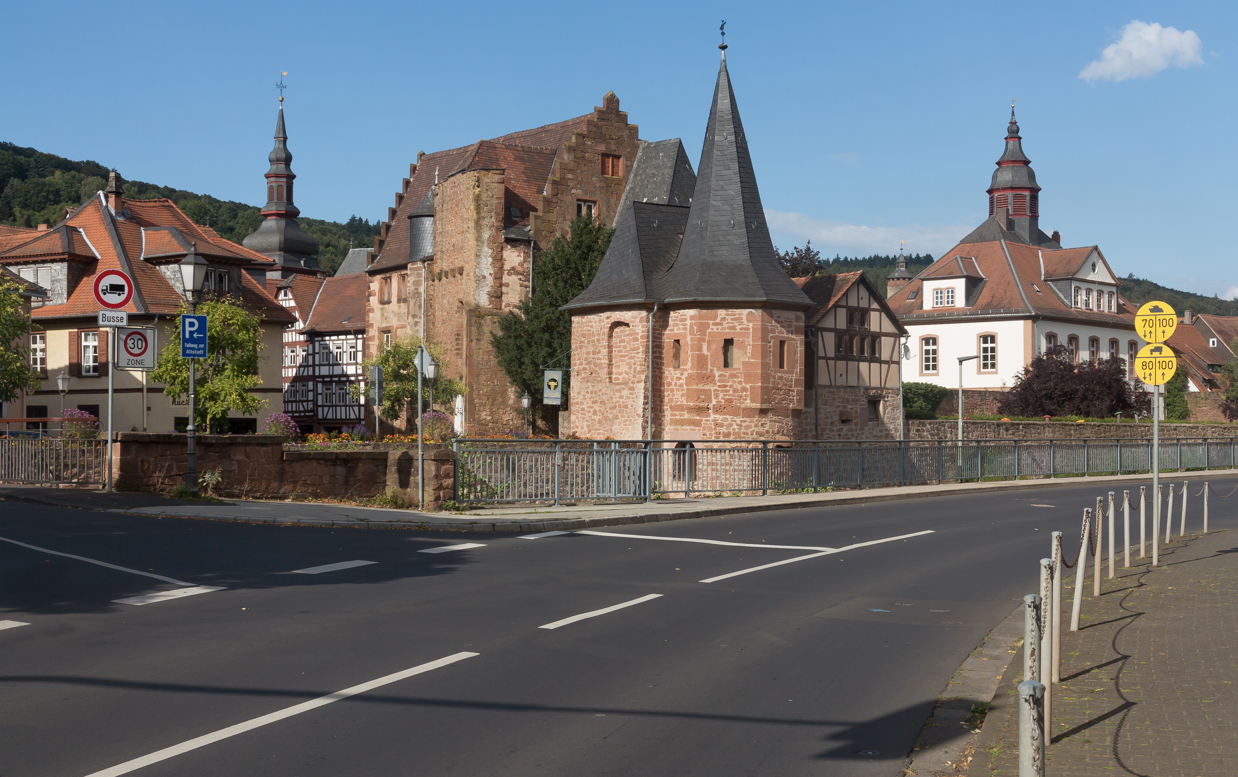 Büdingen, monumental building (das Schlaghaus) in the street